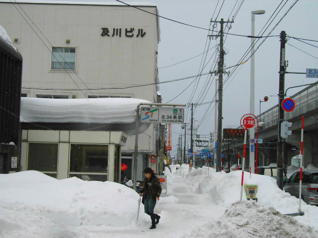 Kita Sanjuyojo Station of Sapporo Subway. Sapporo, Japan.